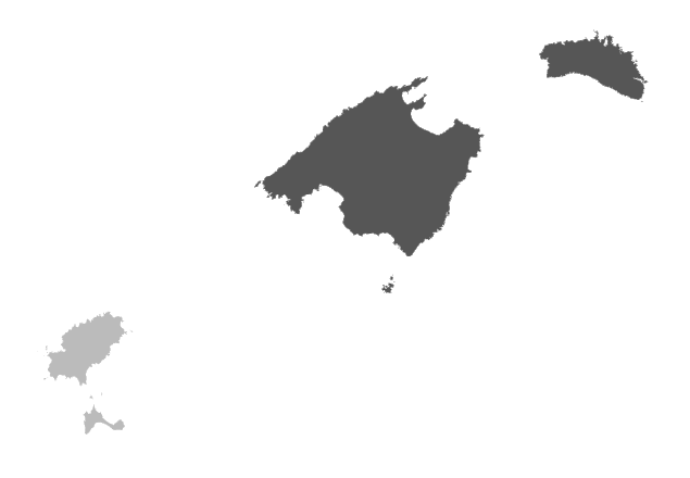 Map of the Gimnesian Islands